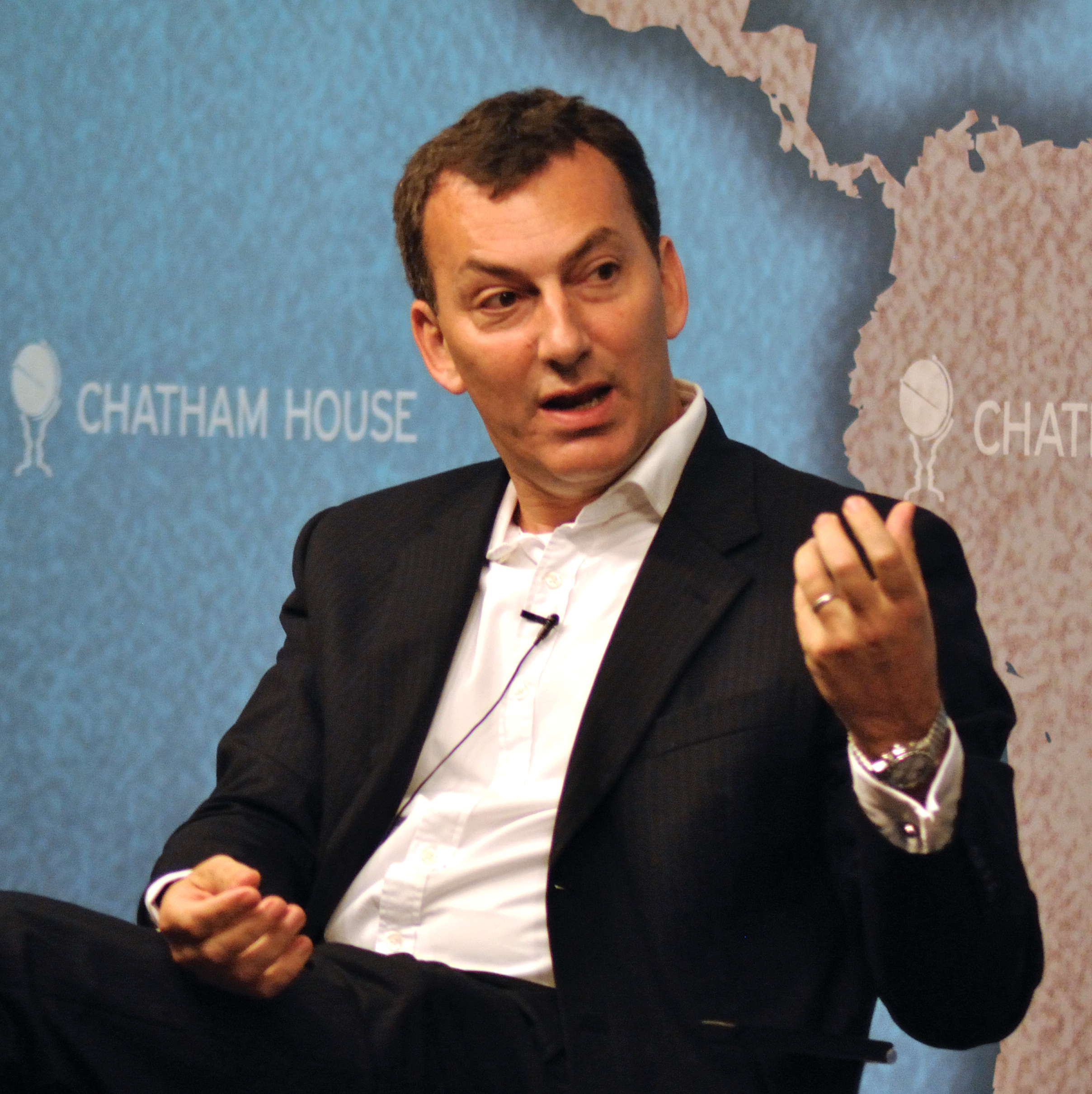 Security and Intelligence Challenges as Seen from Inside and Outside Government